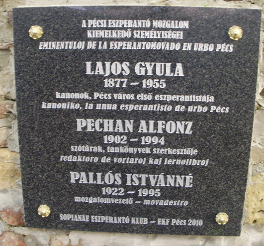 Pécs People Esperanto Plaque (Hungary)